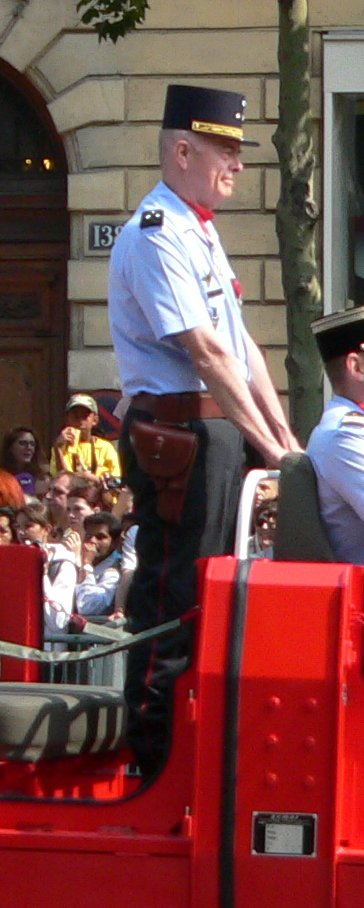 General Bernard Périco, commanding officer of the Paris Fire Brigade Photograph taken at: Military parade, Avenue des Champs-Élysées (Paris), 14 July 2006